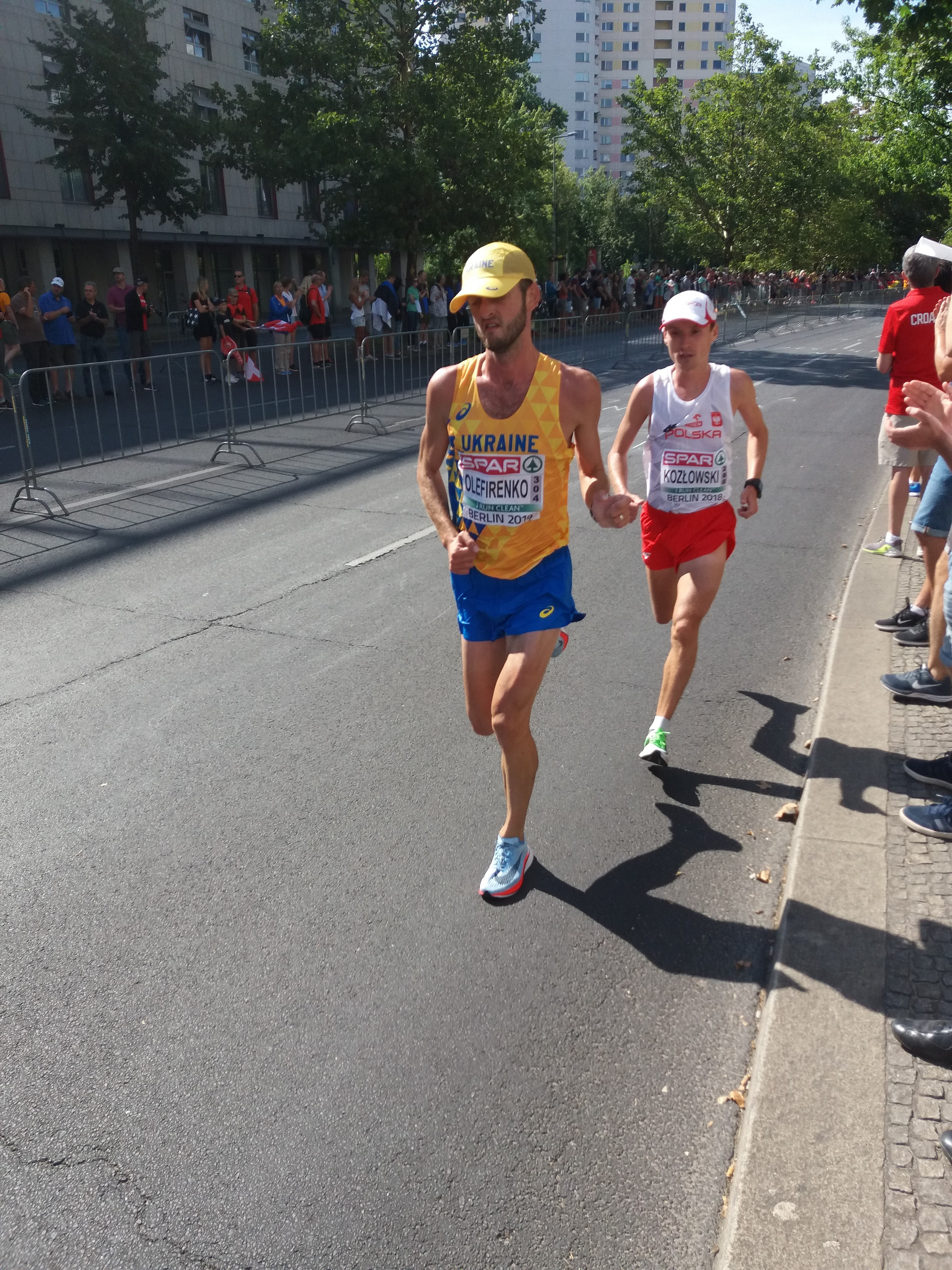 Marathon at the 2018 European Athletics Championships